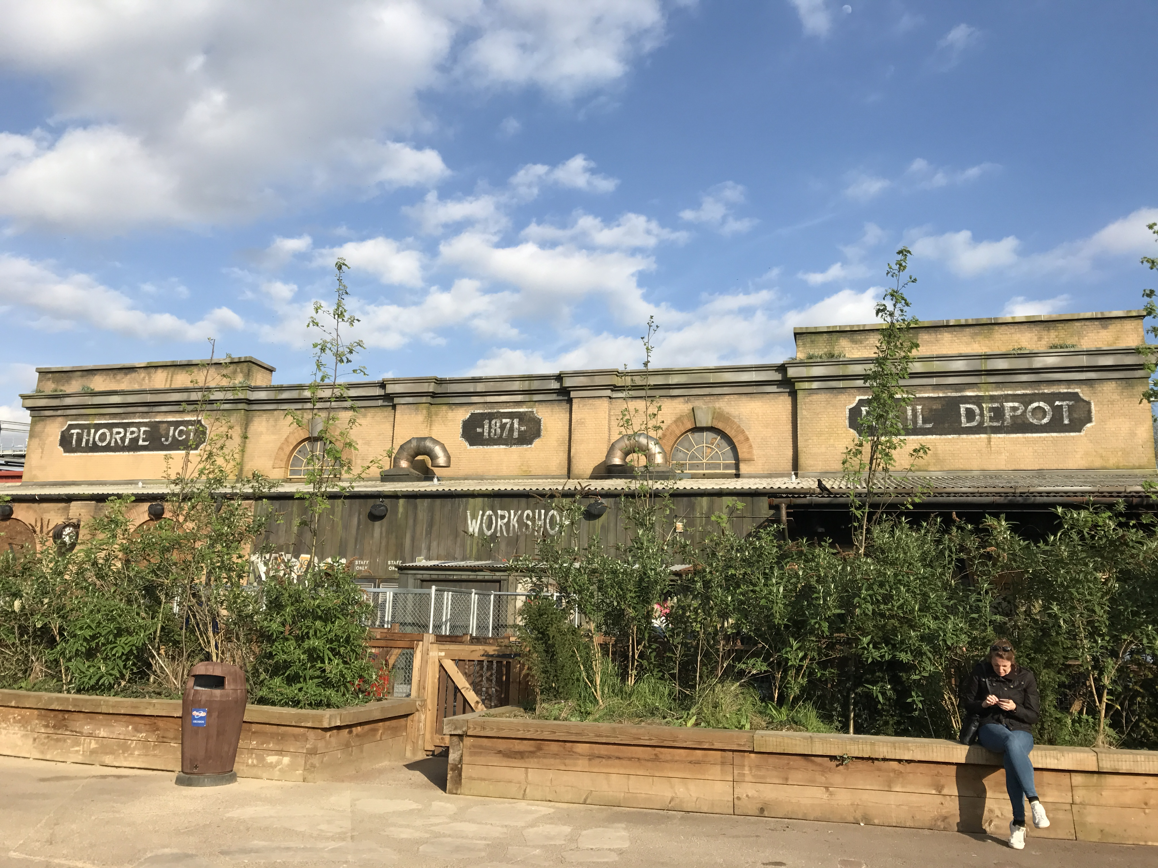 Exterior photo of Derren Brown's Ghost Train at Thorpe Park Resort, Surrey, UK.